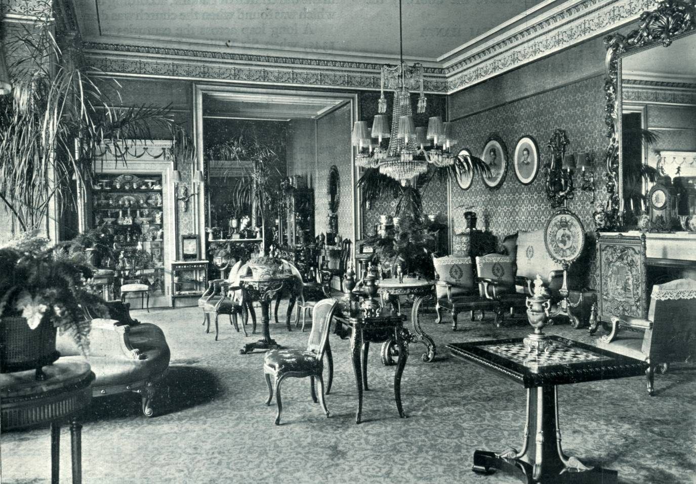 The Drawing Room of Callendar House in the 1920s.